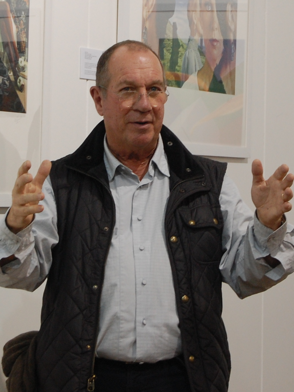 English album sleeve designer and film director Aubrey Powell, giving a talk about his work at St Paul's gallery in Birmingham, England.